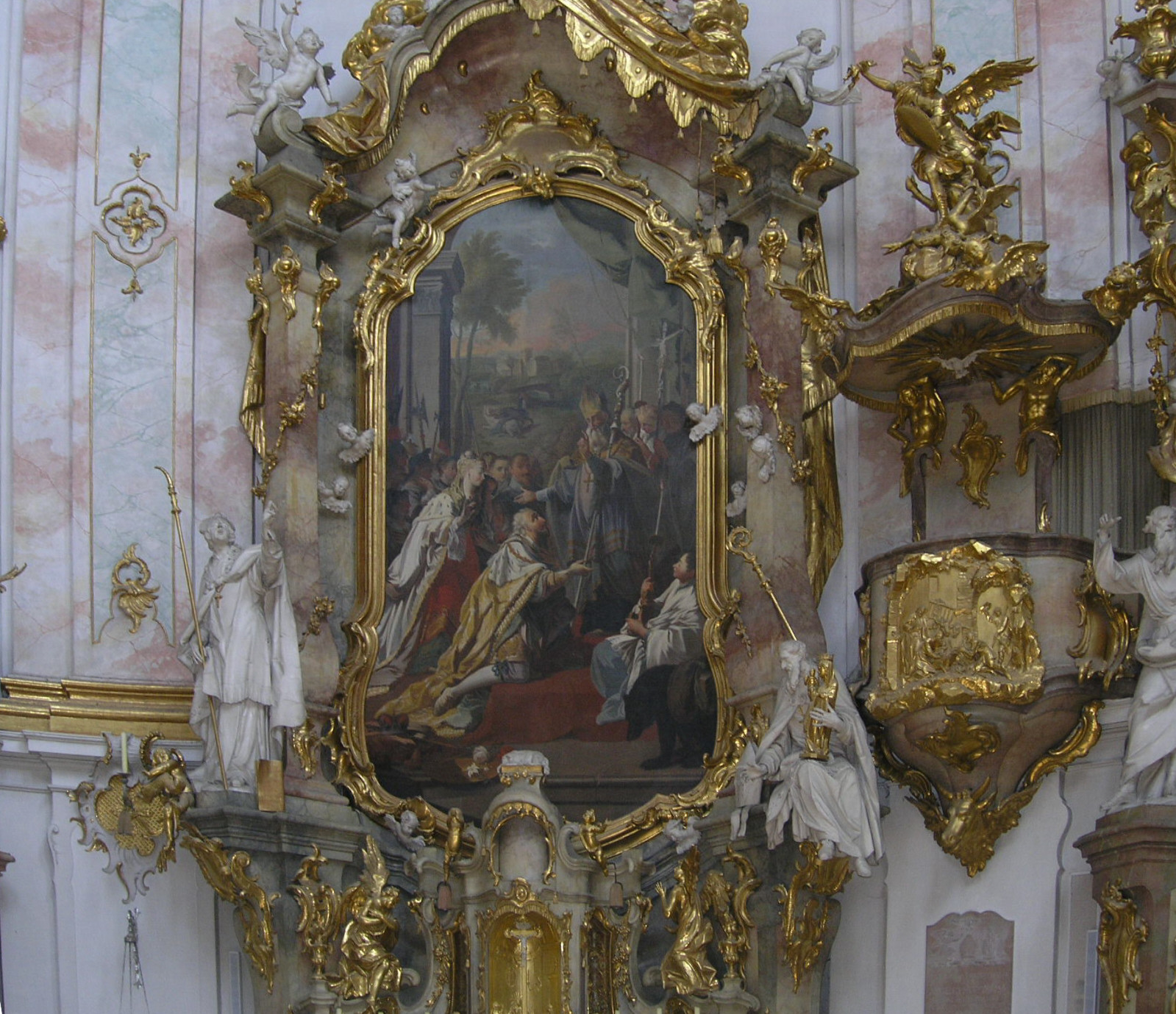 Monastery church of Ettal: Pulpit and side altar by J. B. Straub